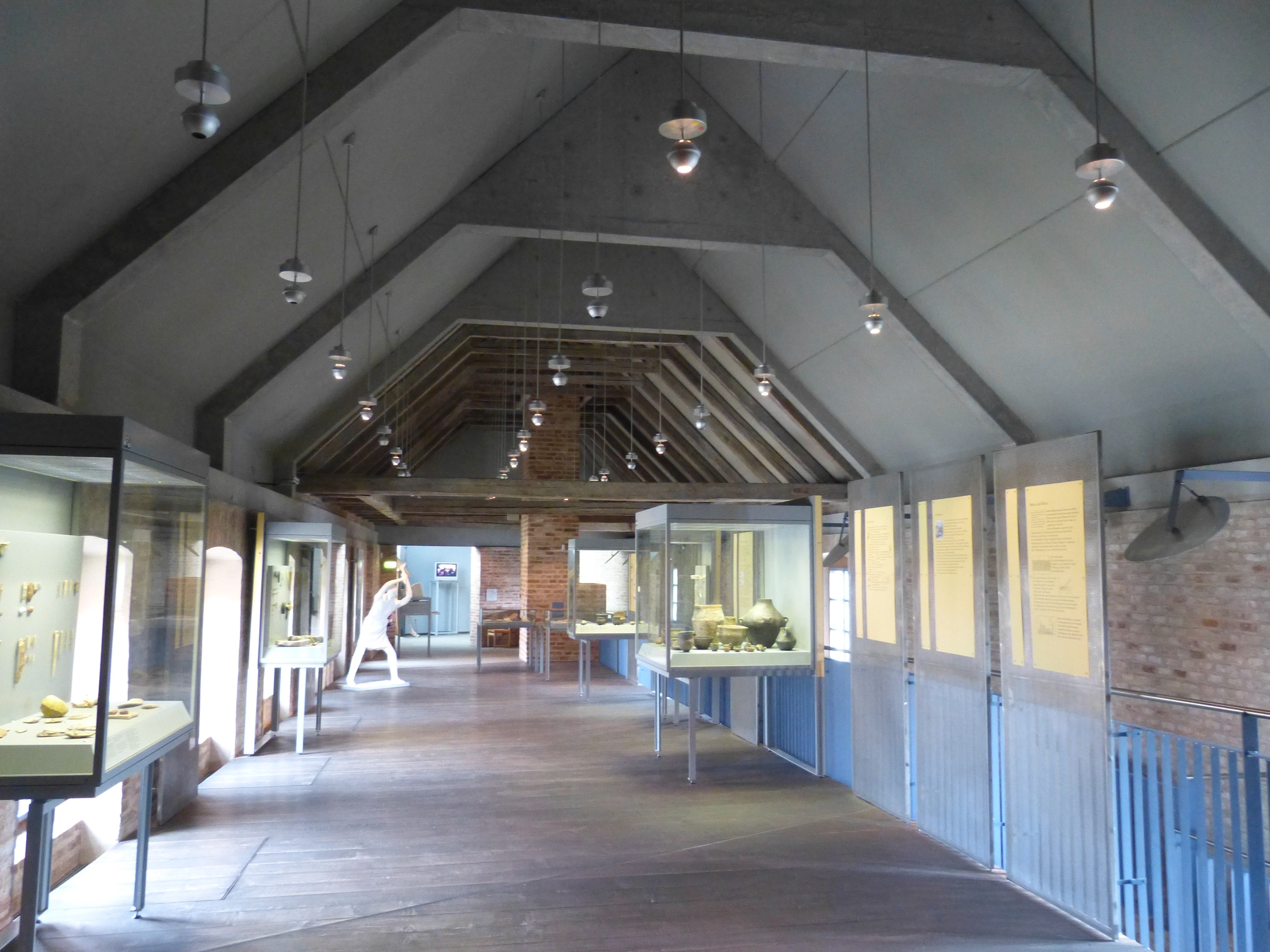 Landau an der Isar ( Lower Bavaria ). Archaeological Museum of Lower Bavaria - Interior.